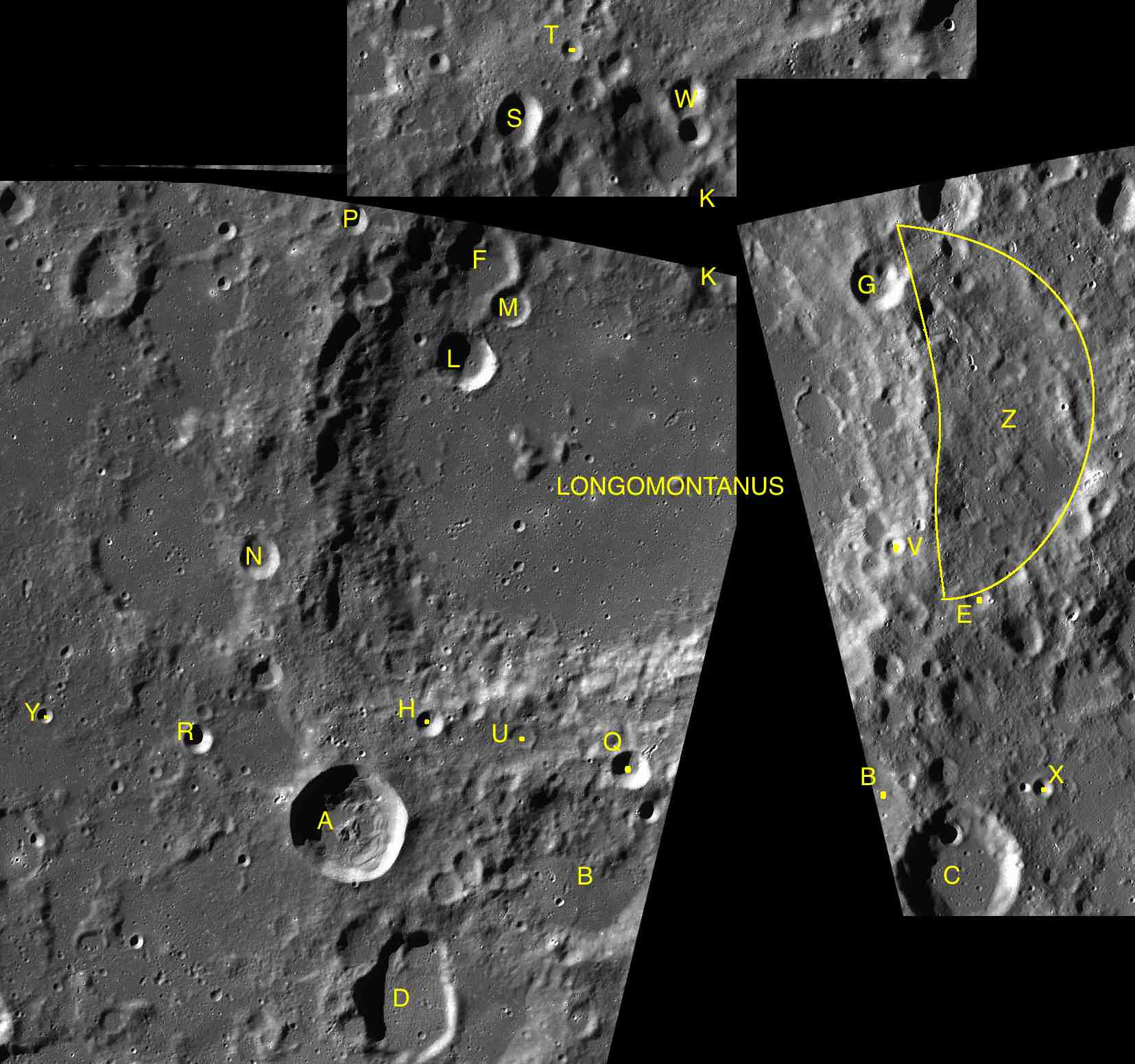 Parts of the charts LAC-111, LAC-125 and LAC-126 used for the presentation